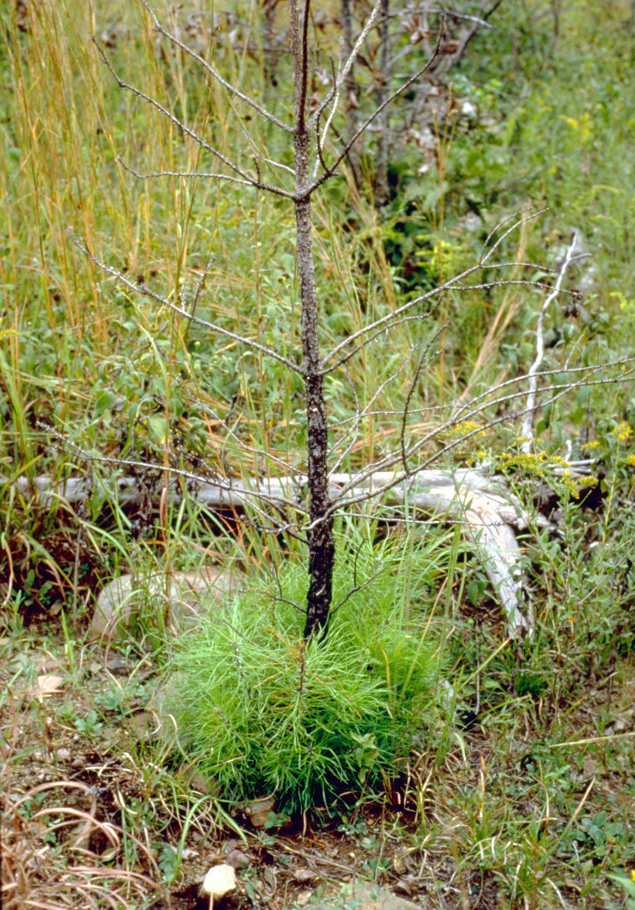 Pinus echinata sprouting from root collar after wildfire killed the main stem. It is one of the few pines that can regrow in this way. Ouachita National Forest, LeFlore county, Oklahoma, USA.